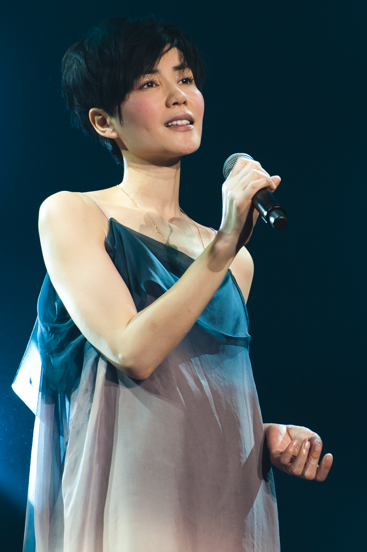 Faye Wong Concert Tour 2011, Kuala Lumpur